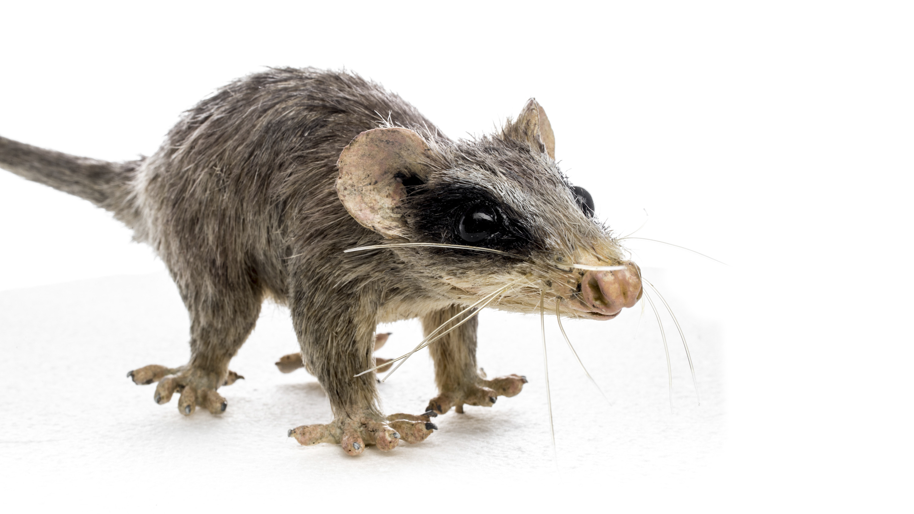 Alphadon sp. Reconstrution in scale 1:1